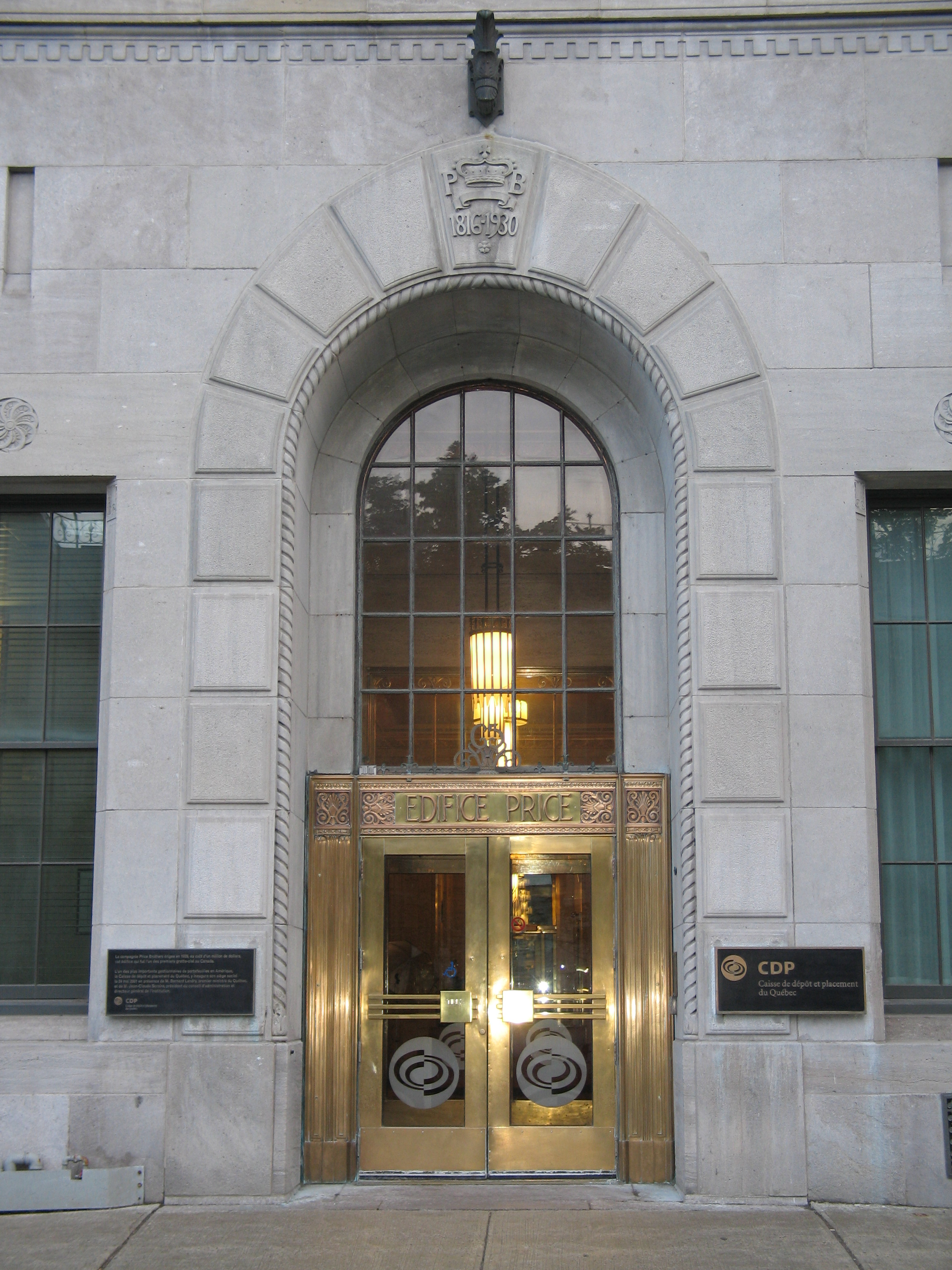 Main entrance of the Price Building, in the old city of Quebec City. The building is the head office of the Caisse de dépôt et placement du Québec and the official residence of the Premier of Québec